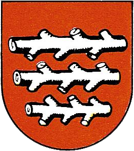 Coat of arms of Knittelfeld, Styria